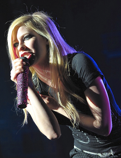 Avril Lavigne performing at the Heineken Music Hall, in Amsterdam, Netherlands.